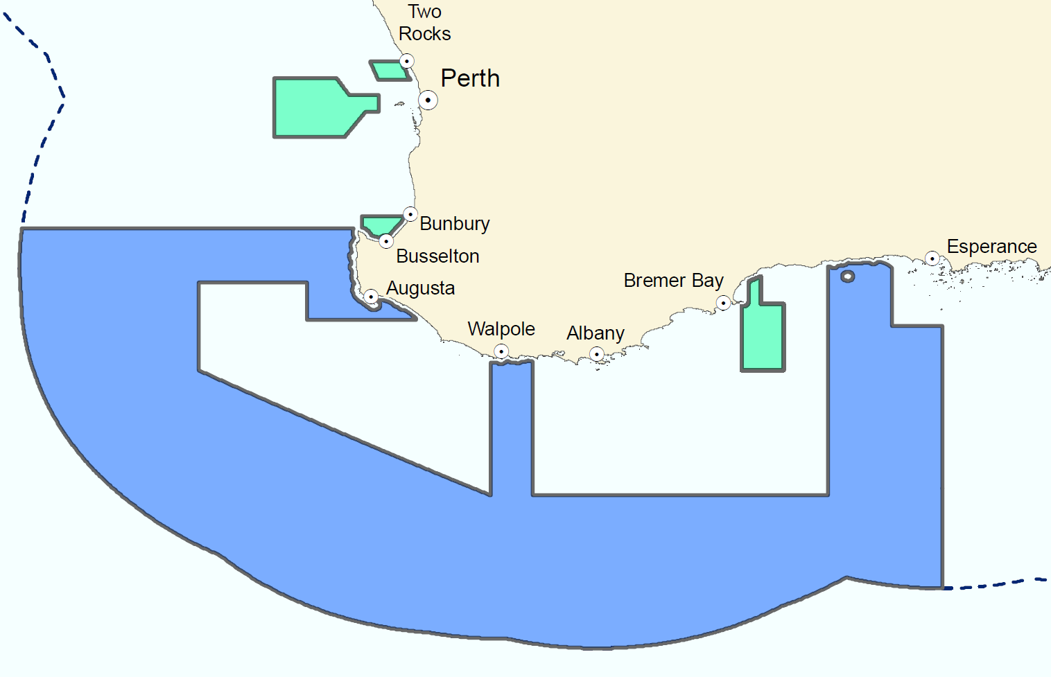 Map of the South-west Corner Commonwealth Marine Reserve, highlighted in blue, off Western Australia's south-western coast. Nearby commonwealth marine reserves are highlighted in aqua.